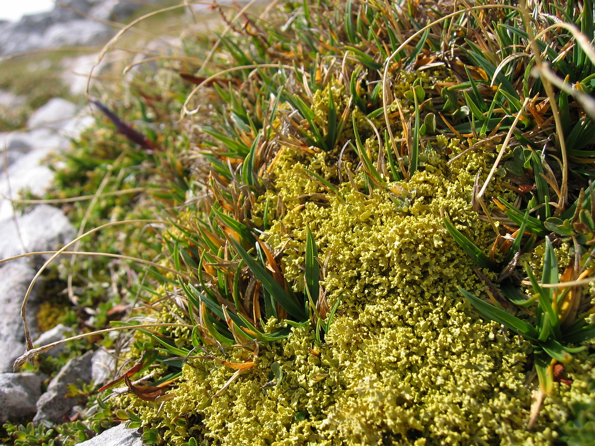 Cetraria tilesii within Carex firma, Toter Mann ~ 2000m, Austria